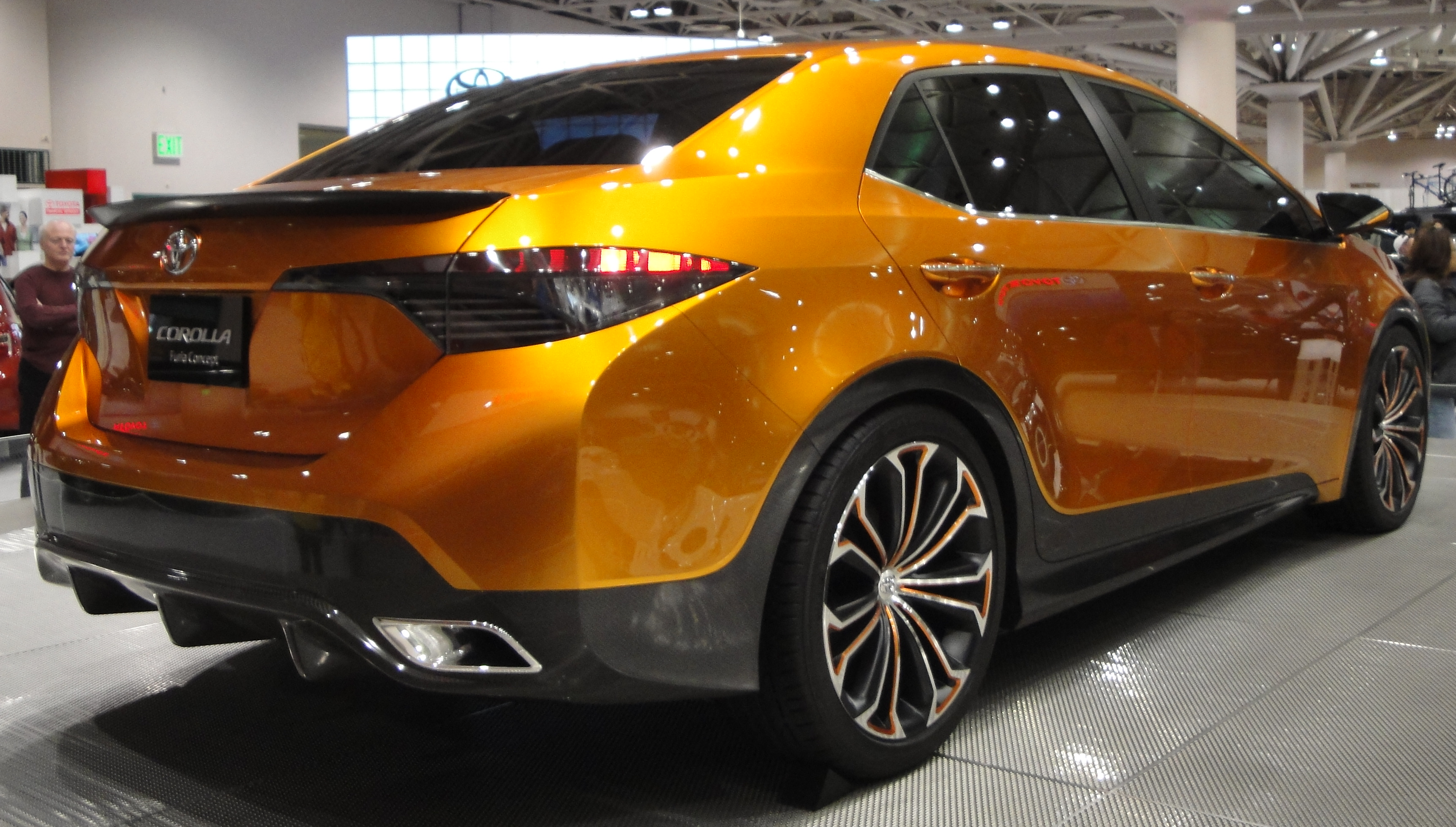 40th Annual Twin Cities Auto Show March 2013 Minneapolis Convention Center